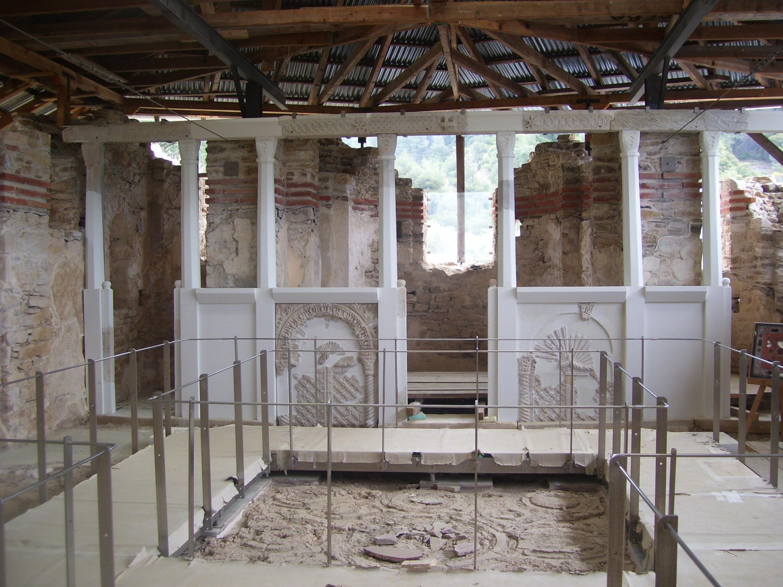 Zigou Monastery Church